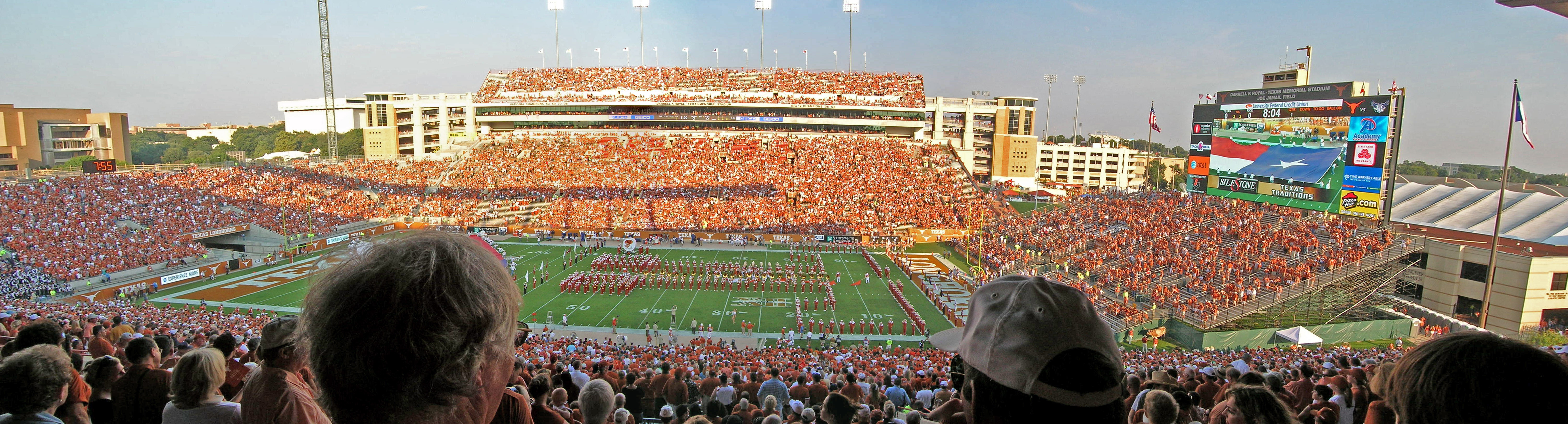 A 3 shot panorama taken with my point-and-shoot at the September 23rd UT/Rice game at Darrel K. Royal Stadium in the University of Texas at Austin. This is a vanilla version with minimal Photoshop other than some colour tweaking and minor edge touch-up (where the automatic stitching didn't get it quite right).